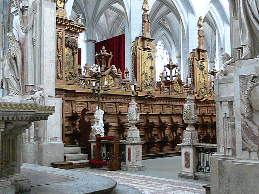 Description: Chorgestühl (links) Source: User:Saberhagen Location: Salemer Münster, Salem (Baden), Germany Source: own photograph by uploader